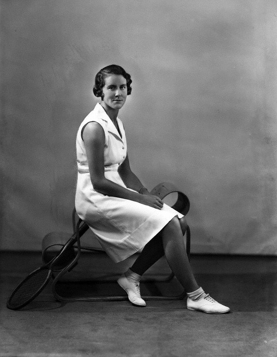 English tennis player Evelyn Dearman by Bassano, whole-plate glass negative, 17 April 1936